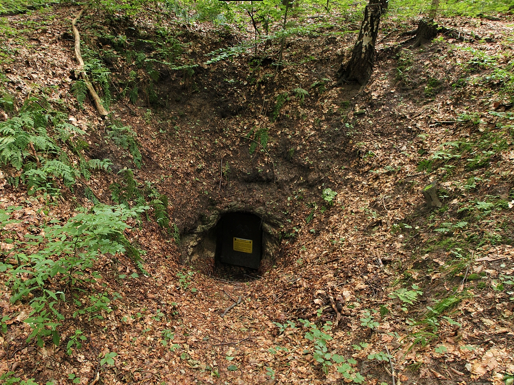 Saxon Switzerland: view on the entrance of the "Specksteinstollen", a abandoned mine near the Gohrisch (440 metres). The mine is used as winter-home for microbats.